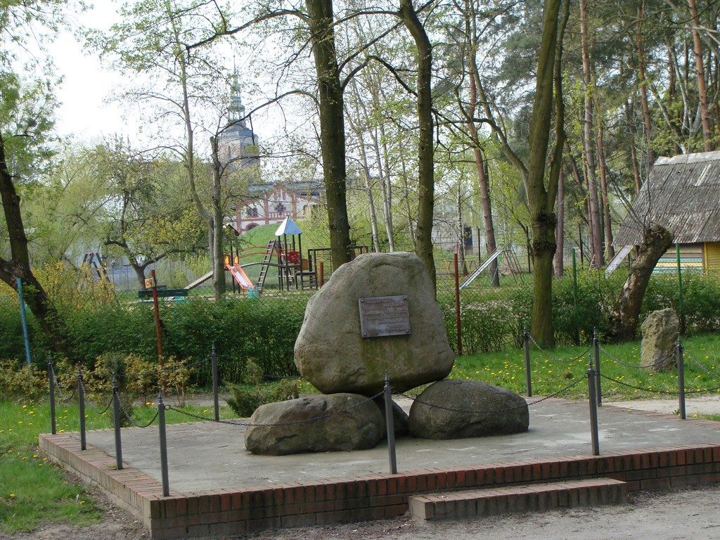 Śrem, Park of Insurgents of Greater Poland, stone commemorating 750-years enfranchisment city.